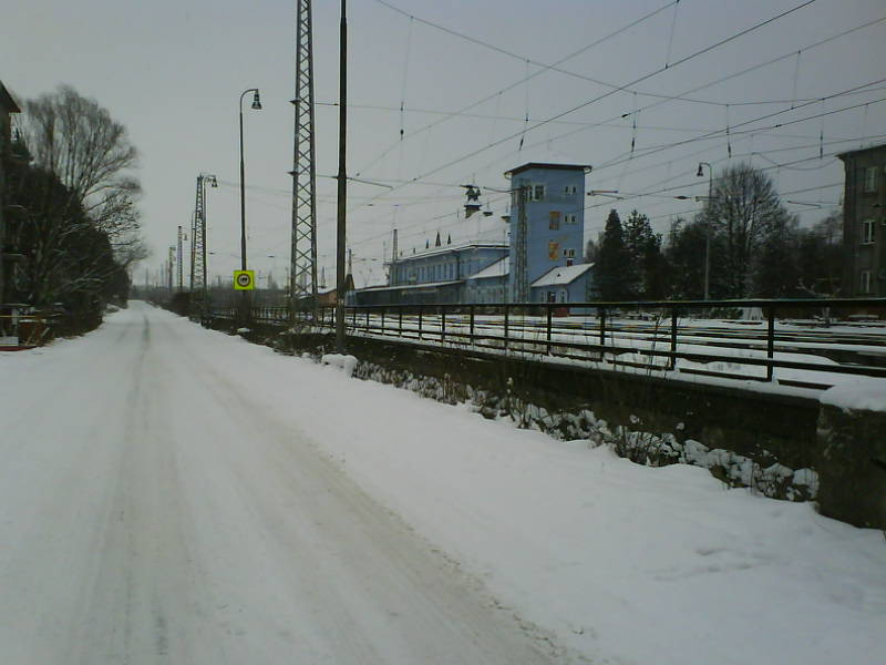 Railway station - Ružomberok